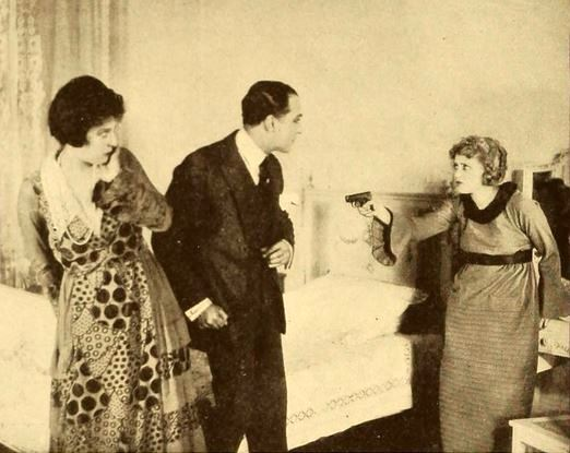 Still from the American film The House Without Children (1919) with Gretchen Hartman, Richard Travers, and Helen Weir, on page 1764 of the August 30, 1919 Motion Picture News.